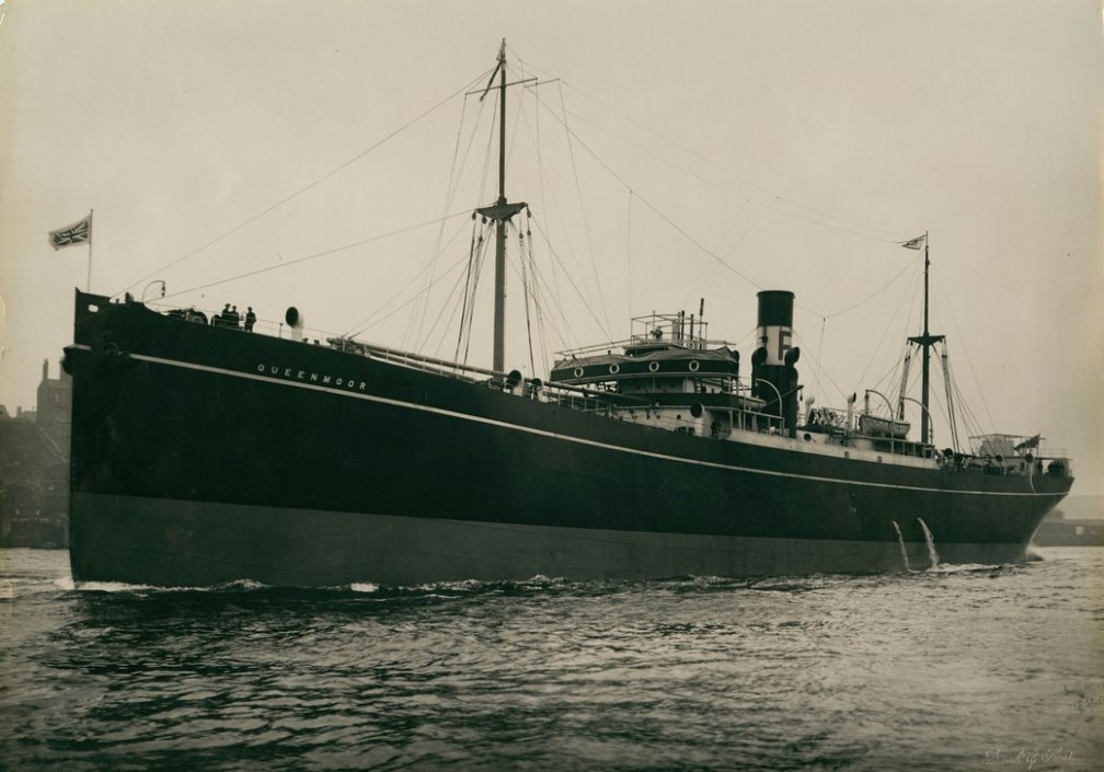 View of the cargo ship ‘Queenmoor’ on sea trials, 1924 (TWAM ref. 1061/998). She was launched at the shipyard of John Readhead & Sons Ltd, South Shields on 8 December 1923. This set celebrates the achievements of the shipyard of John Readhead & Sons. The firm has played a significant role in the North East’s illustrious shipbuilding history and the development of South Shields. The company began in 1865 when John Readhead, a shipyard manager, entered into business with J Softley at a small yard on the Lawe at South Shields. Following the dissolution of the partnership in 1872, it continued as John Readhead & Co on the same site until 1880 when the High West Yard was purchased. After Readhead’s four sons were taken into the business in 1888 the company traded as John Readhead & Sons becoming a limited company in 1908. In 1968 the company was absorbed by the Swan Hunter Group and in 1977 became part of the nationalised British Shipbuilders. In the same year the last vessel was launched and the site was sold off in 1984. Readheads was prolific and built over 600 ships from 1865 to 1968, including 87 vessels for the Hain Steamship Company Ltd and over forty for the Strick Line Ltd. The shipyard also built four ships for the Prince Line, founded by Sir James Knott. The firm built vessels, which were involved in the major conflicts of the Twentieth Century. During the First World War they built patrol vessels and ‘x’ lighters (motor landing craft used in the Gallipoli campaign) for the Admiralty. During the Second World War the firm built tankers for the Normandy Landings. (Copyright) We're happy for you to share this digital image within the spirit of The Commons. Please cite 'Tyne & Wear Archives & Museums' when reusing. Certain restrictions on high quality reproductions and commercial use of the original physical version apply though; if you're unsure please .